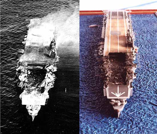 A converted 1/700 scale model of IJN Hiryu based on the real photo taken at the Battle of Midway. Winner of small scale ship category in Australian Model Expo 2002.